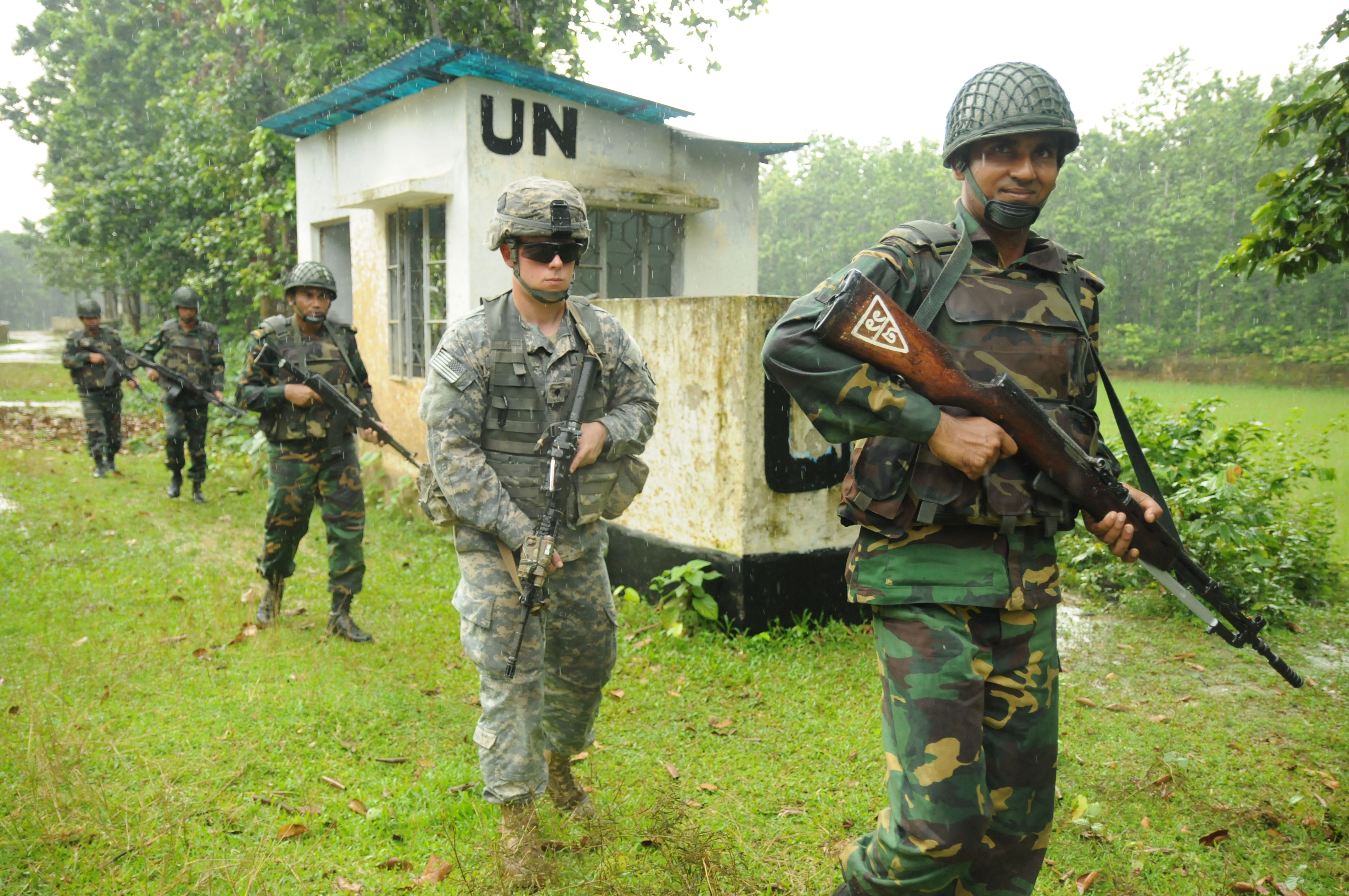 A U.S. Army soldier marching with soldiers from Bandladesh in single file during a tactical training exercise.